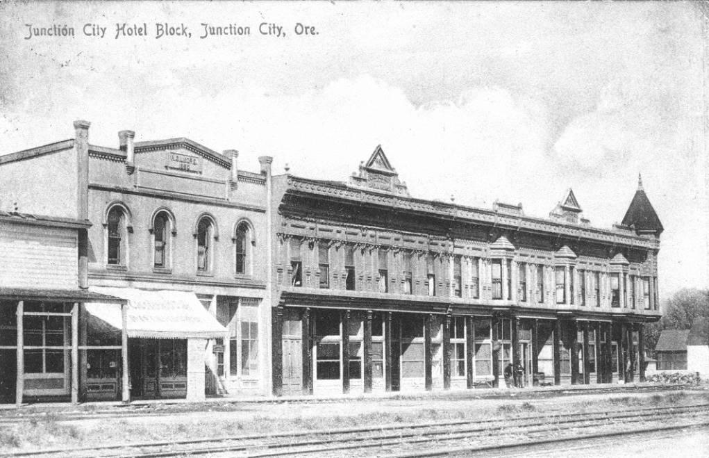 Original Collection: Gerald W. Williams Collection Item Number: WilliamsG:WV Junction City Restrictions: Please contact the OSU Archives for permissions forms or information on how to cite our collections. Click here to view our digital collections. You can find this image by searching for the item number. Click here to view Oregon State University's other digital collections. We're happy for you to share this digital image within the spirit of The Commons; however, certain restrictions on high quality reproductions of the original physical version may apply. To read more about what “no known restrictions” means, please visit the OSU Archives website.